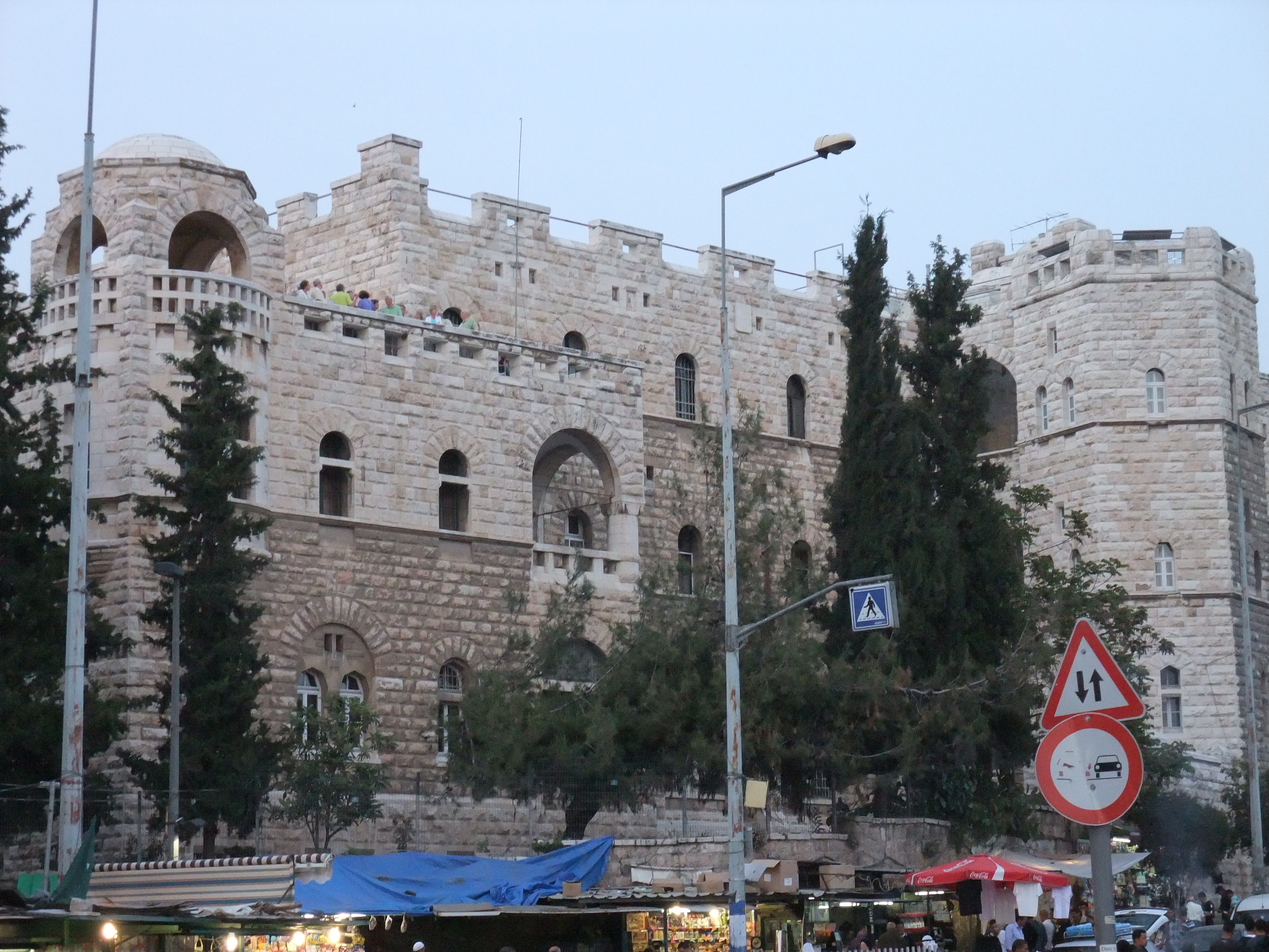 View of the front facade of the Paulus-Haus in Jerusalem